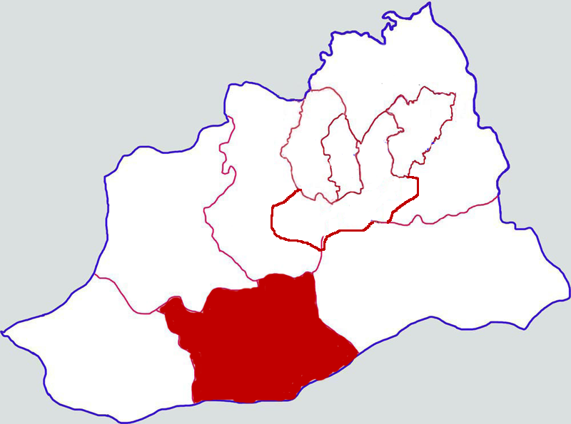 Location of Wen county in Jiaozuo city, China